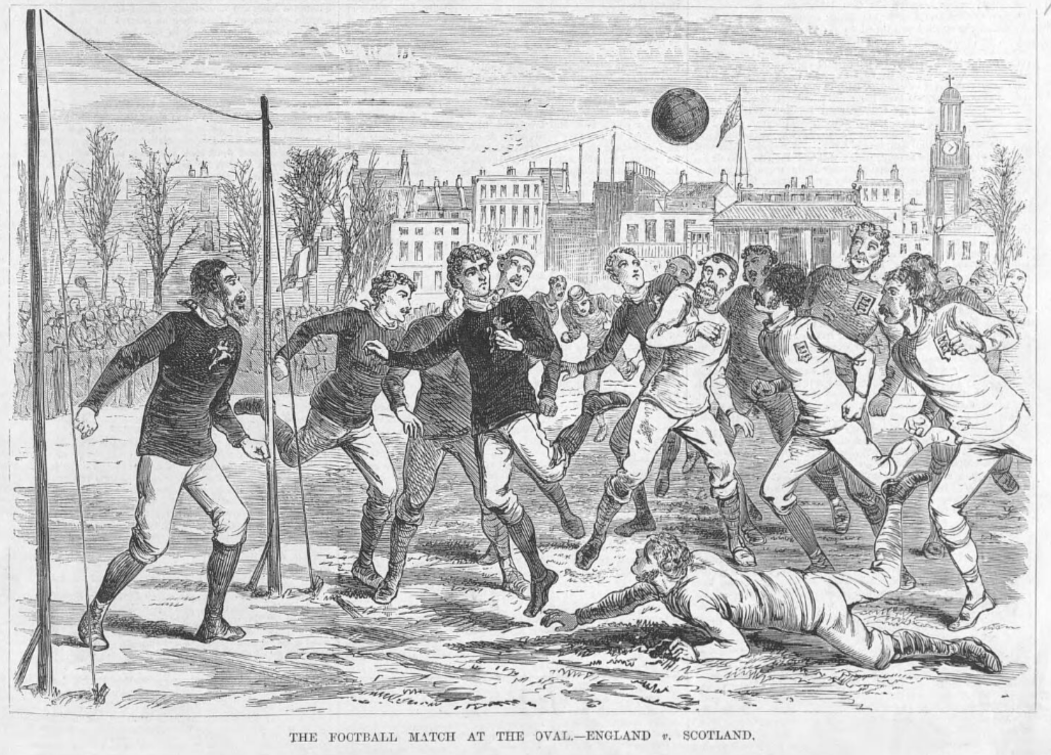 Illustration of the association football match England v Scotland, played at the Oval on 1879-04-05.